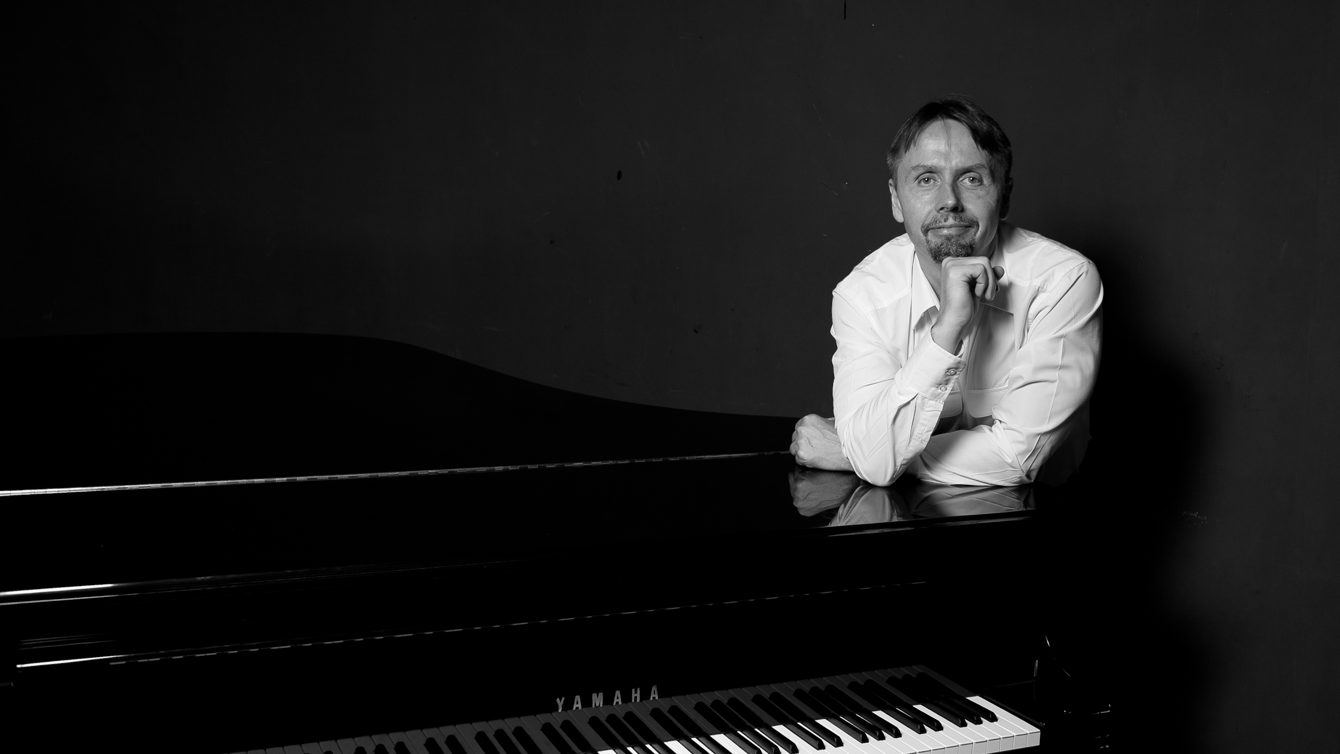 Michael Edward Edgerton, 2013, Experimental Theater at the University of Malaya, Kuala Lumpur. Photo by Shahrizal Jaapar